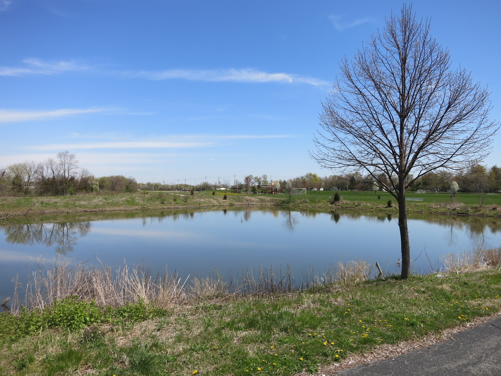 Photo shows Red Hawk Park on St. Charles Road at Kuhn Road in Carol Stream, Illinois. View is toward the north.